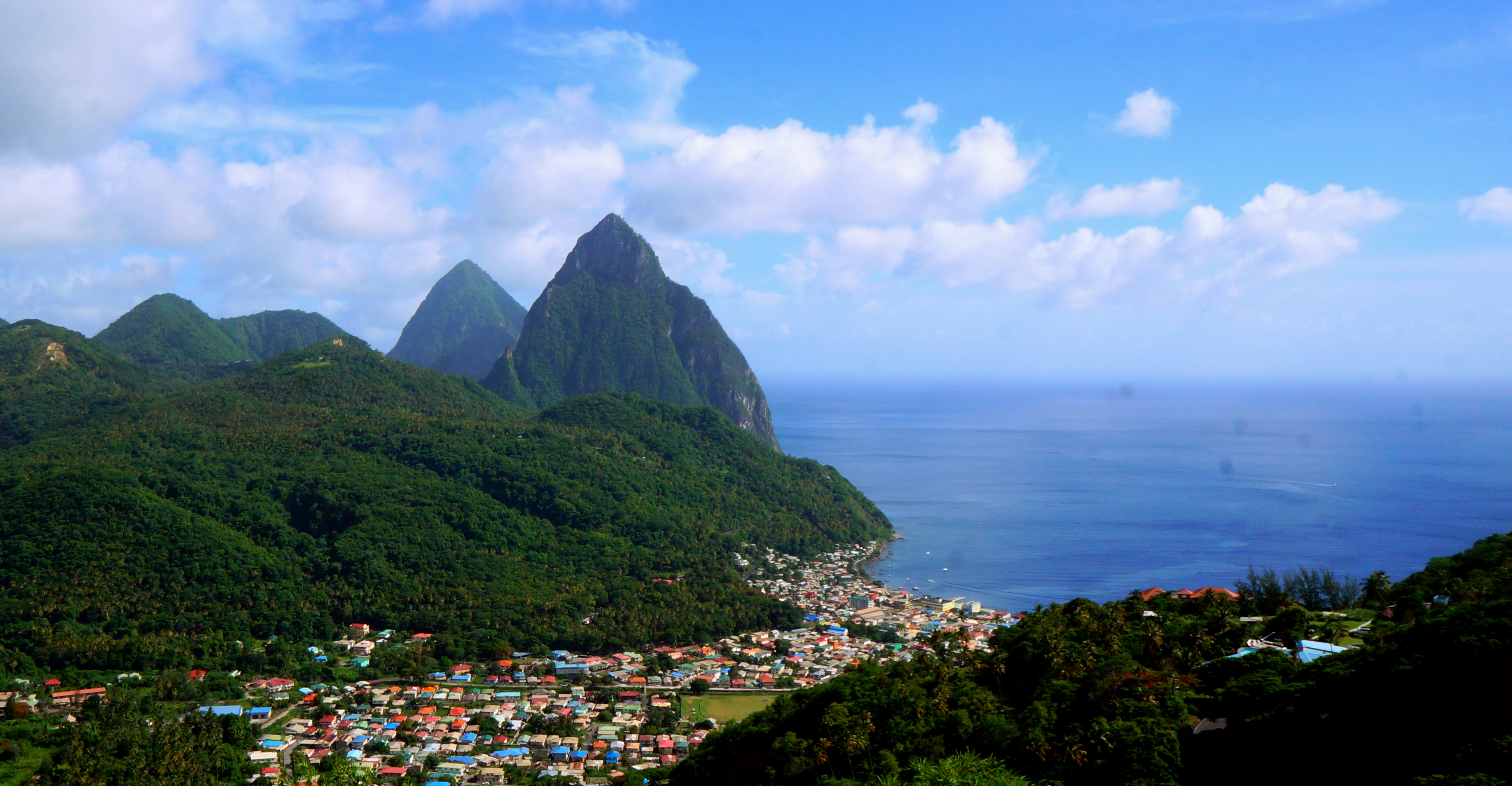 The twin peaks of Petit Piton and Gros Piton behind the town of Soufrière as seen from mountains in the North East. More freely usable pictures of and related to Hiking Gros Piton in Saint Lucia. Please credit and link to Saint Lucia Travel when using this image.